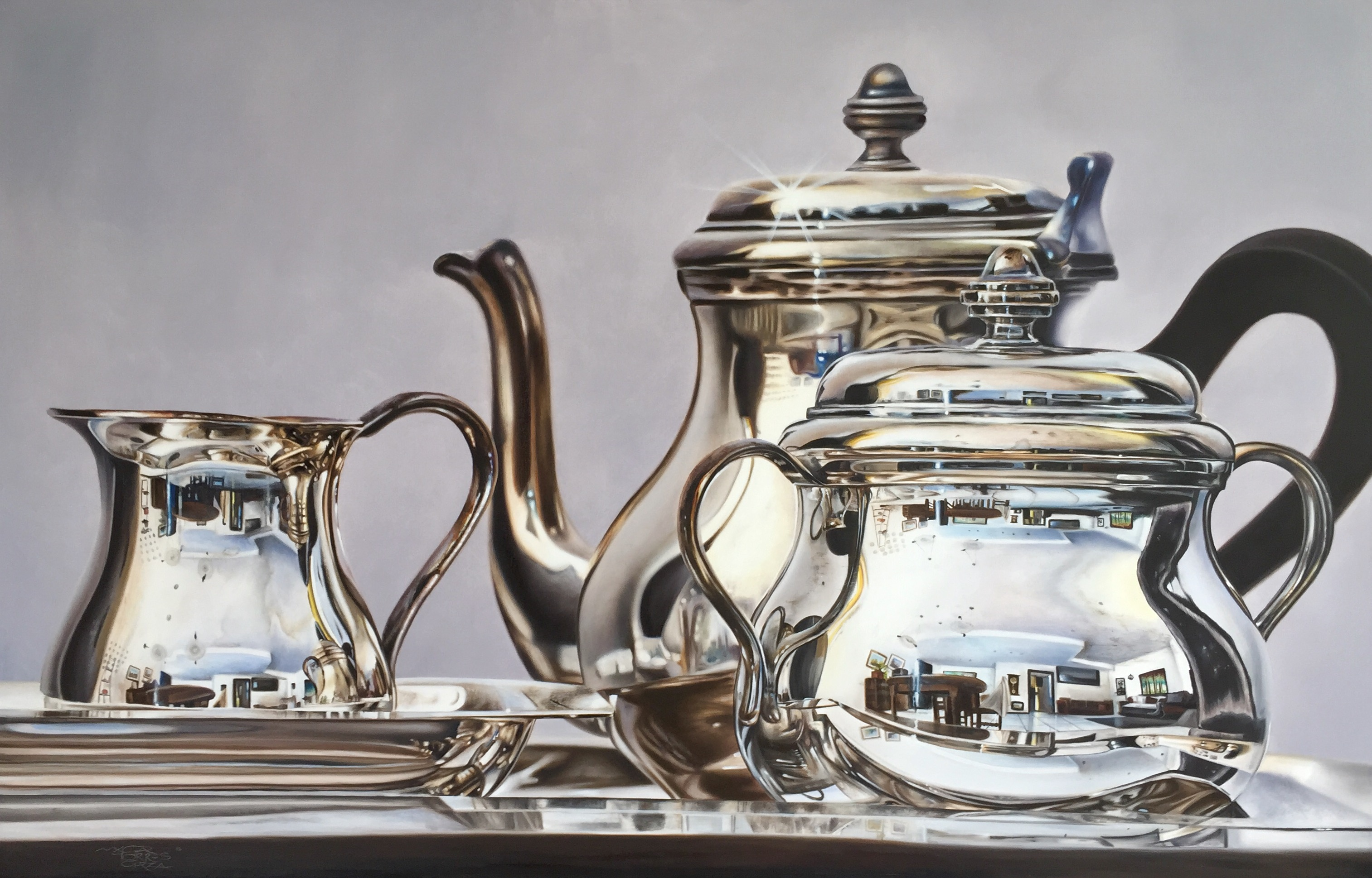 A photo of my work as an artist. EDITORIAL NOTE: This needs a description of the medium, and physical dimensions.